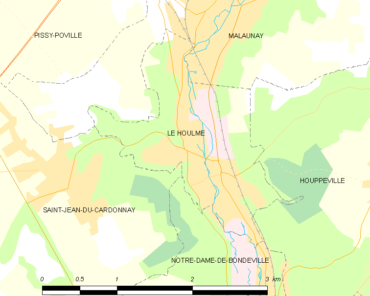 Map of French municipality Le Houlme